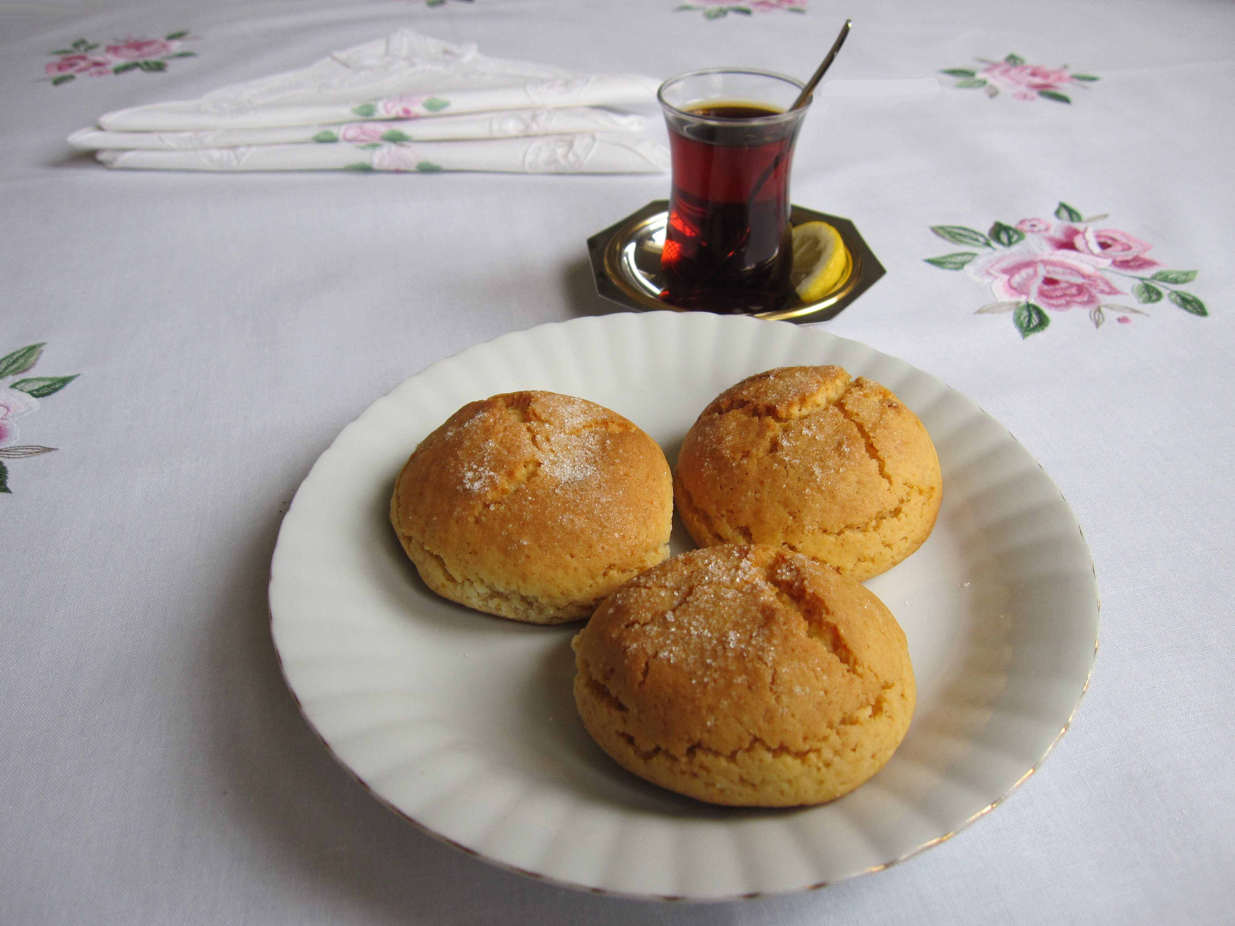 Gurabijat janë ushqim i qëndrueshëm dhe i përshtatshëm në mesin e ushqimeve nga kuzhina kosovare